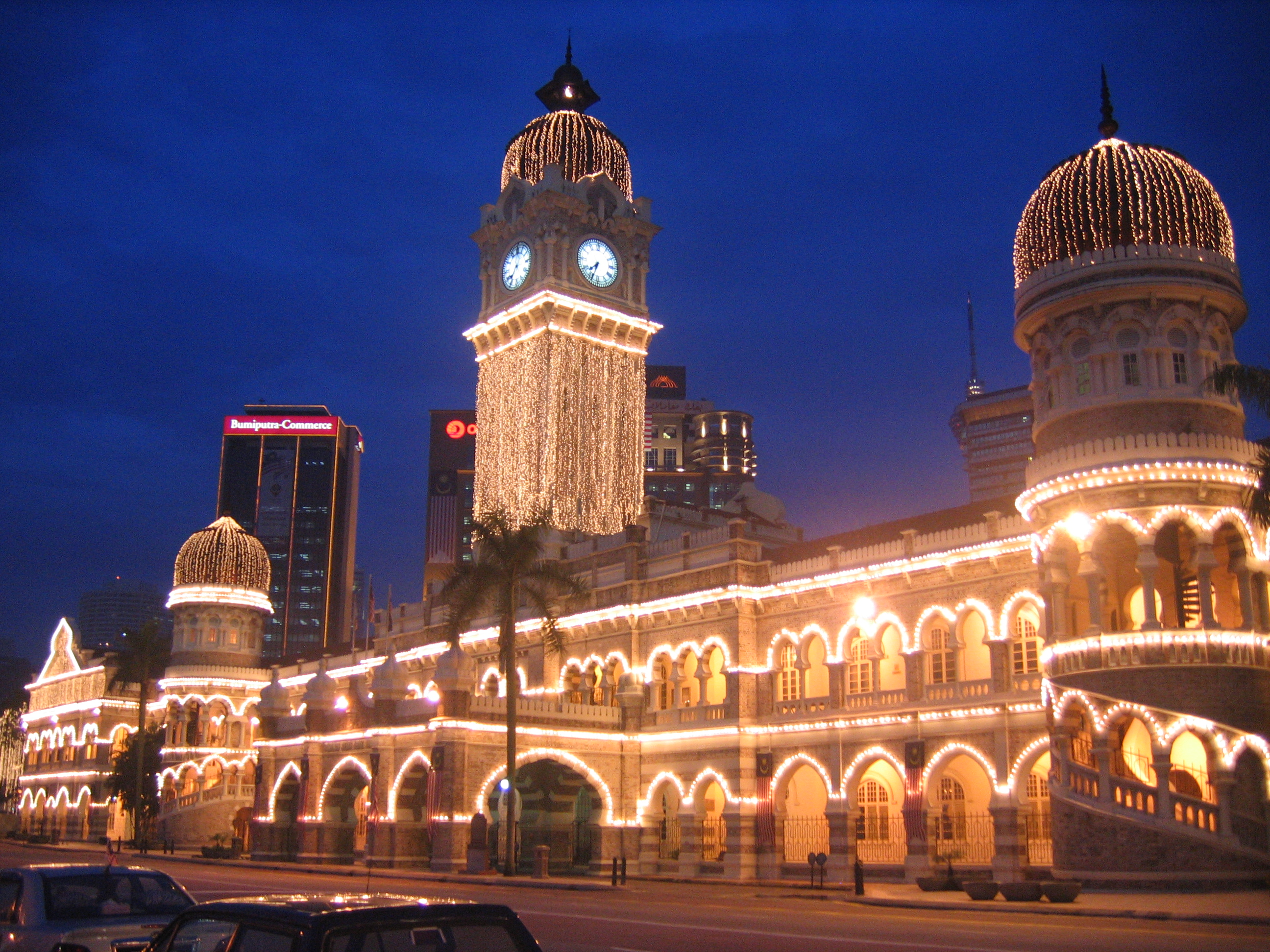 Sultan Abdul Samad Building in Kuala Lumpur, Malaysia, decorated with lights for National Day (31 August).